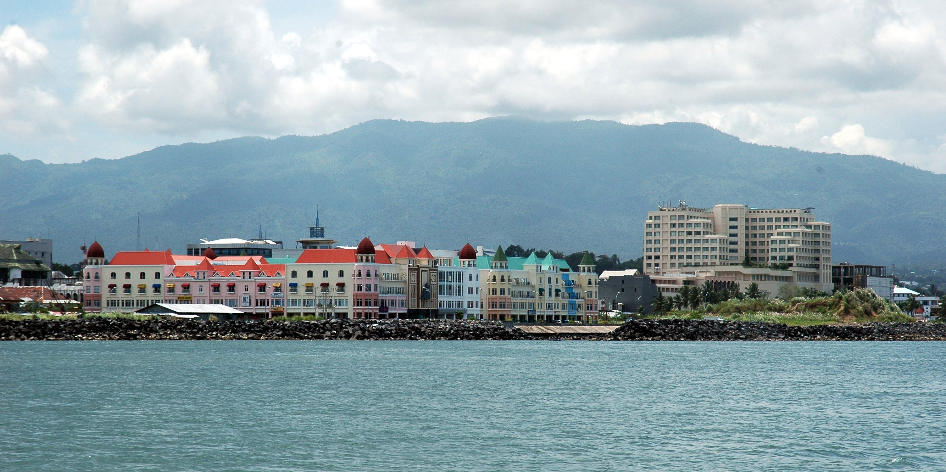 Manado waterfront, North Sulawesi, Indonesia.